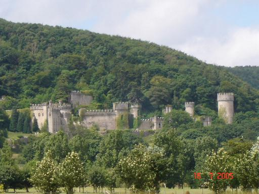 Gwrych Castle is a 19th century mock castle near Abergele in Conwy County Borough, Wales.